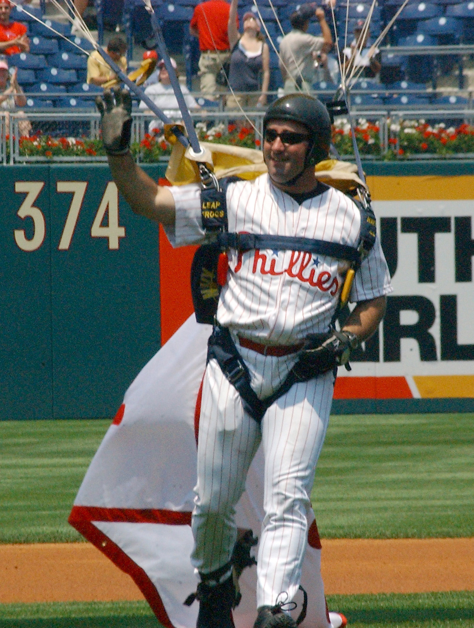 Philadelphia (June 18, 2006) – Leapfrogs, Navy Parachute Team member, Navy SEAL (Sea, Air and Land) Nix White, sports a Philadelphia Phillies' home uniform, as he lands on the baseball field during the pre-game show on Father's Day. Several of Leapfrogs team members delivered game balls to the team, one of which was used as the first pitch, thrown by Supreme Court Justice Samuel Alito. The Leapfrogs were in town performing on board Naval Air Station Joint Reserve Base Willow Grove Air Show over the weekend. U.S. Navy photo by Chief Journalist Monica Hallman (RELEASED)